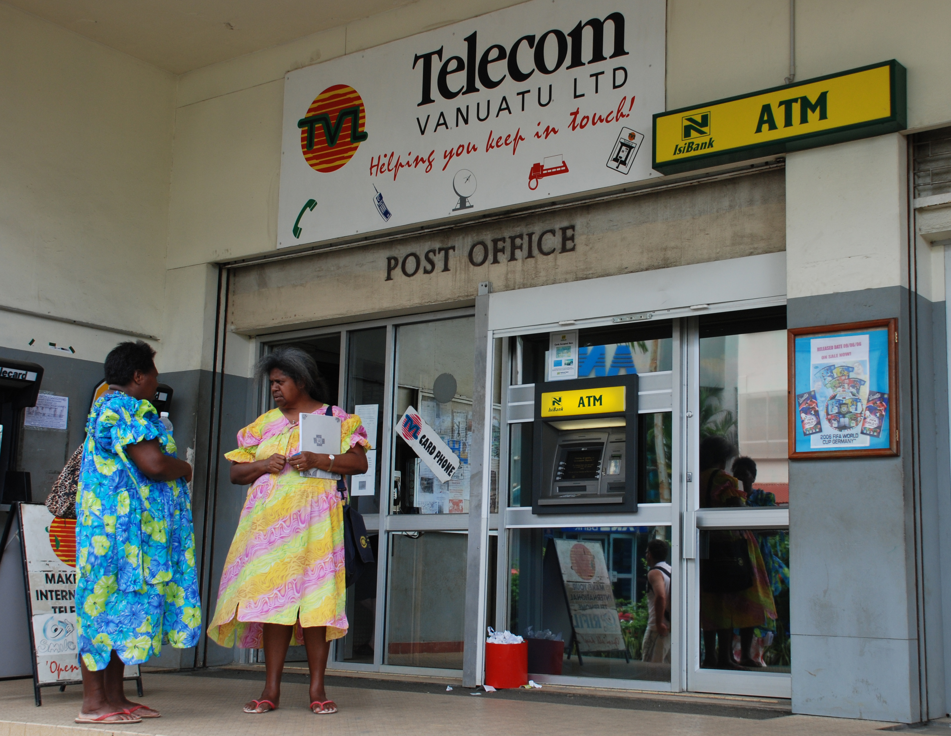 Port Vila Post Office, Vanuatu